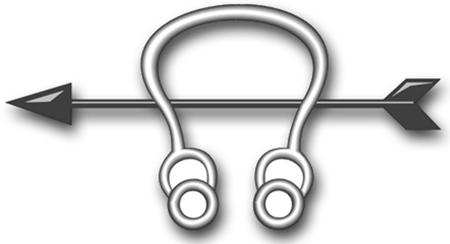 US Navy Sonar Technician (ST). Earphones with arrow in horizontal position, point to the front.